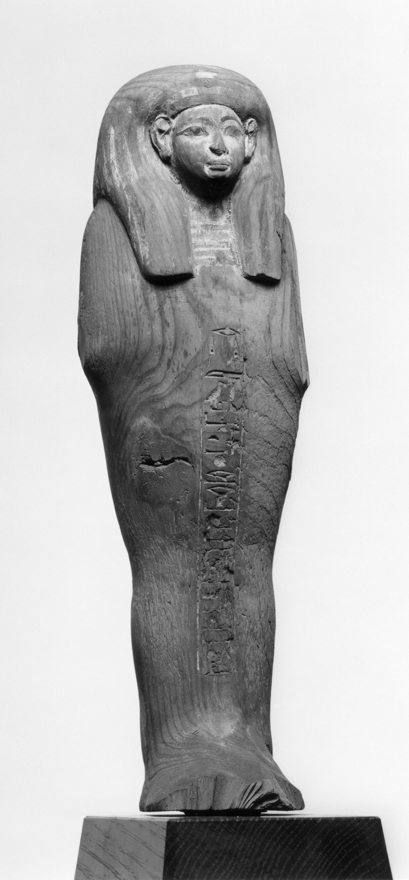 This piece is carved in the round and painted. The mummiform figure has long hair that is striped blue and white. It has a white face, and the pupils, lashes, and eyebrows are neck. It wears painted necklaces. The arms below the elbows are not indicated. Ken-Amun was a high official and overseer of the army recruits. The text on the body of his unusually large ushabti tells us that it was "made by favor of the king."